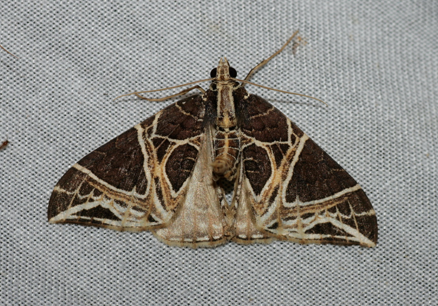 Borneo, Crocker Range National Park April, 2009